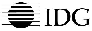 IDG logo